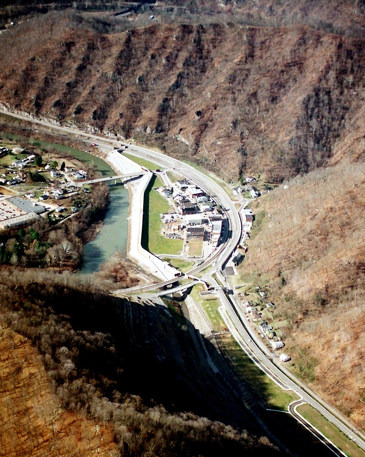 Matewan, West Virginia, USA, along the Tug Fork River. The town is protected by a large floodwall constructed by the U.S. Army Corps of Engineers. The river is the border between West Virginia and Kentucky; Kentucky is on the left and West Virginia is on the right.